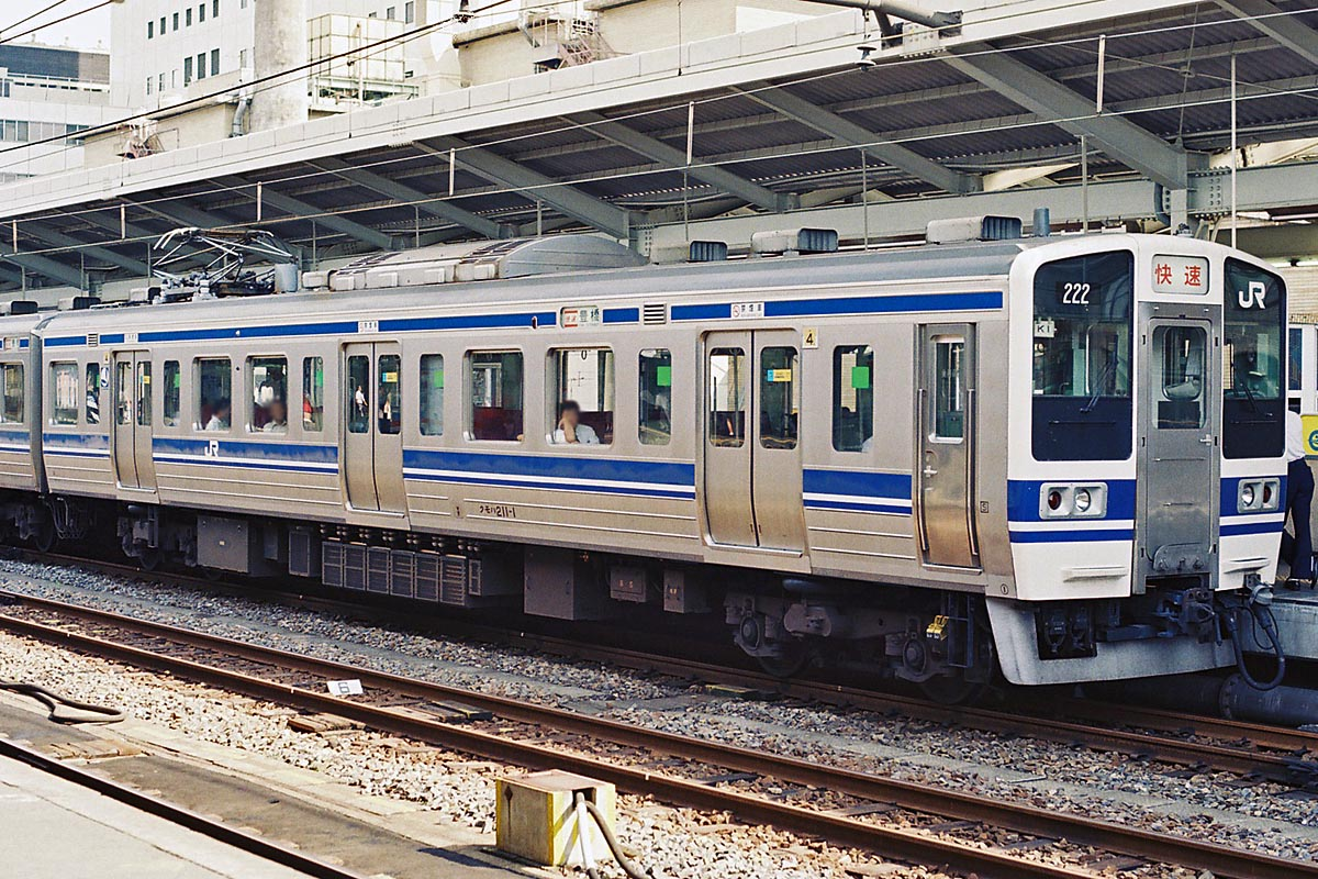 JNR 211 series EMU at Nagoya Station in original livery on a Tokaido Line Rapid service